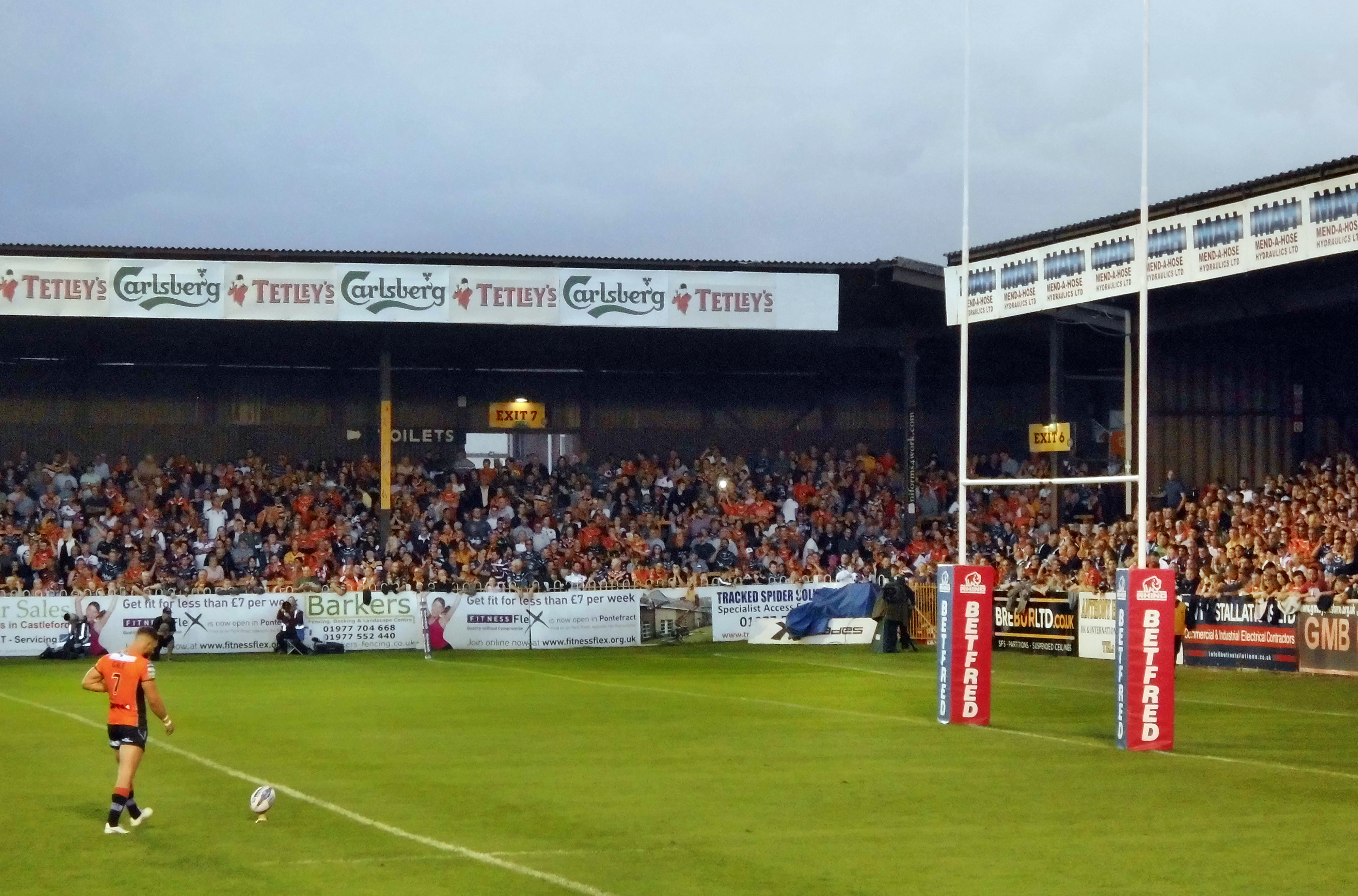 The Jungle Castleford Tigers Rugby league Ground